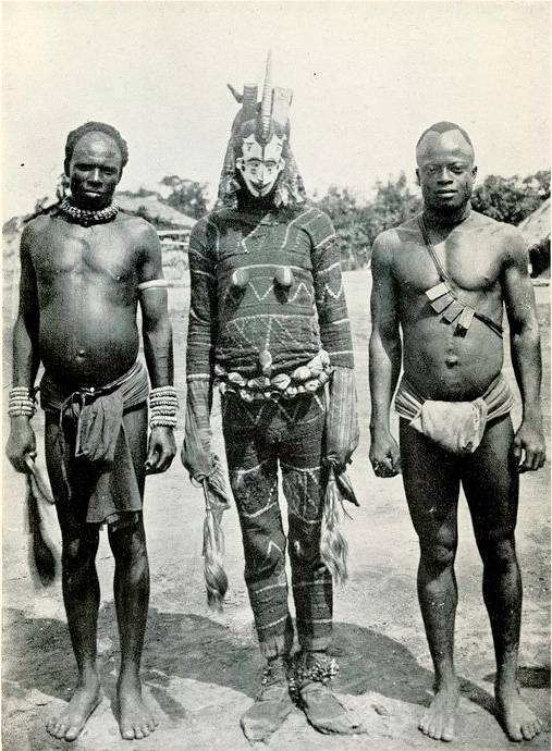 G.T Basden: "The "Maw" (Spirit) of a Girl; The two attendants announce her coming, and generally look after her interests.", the asquerade s from the Igbo people of Nigeria